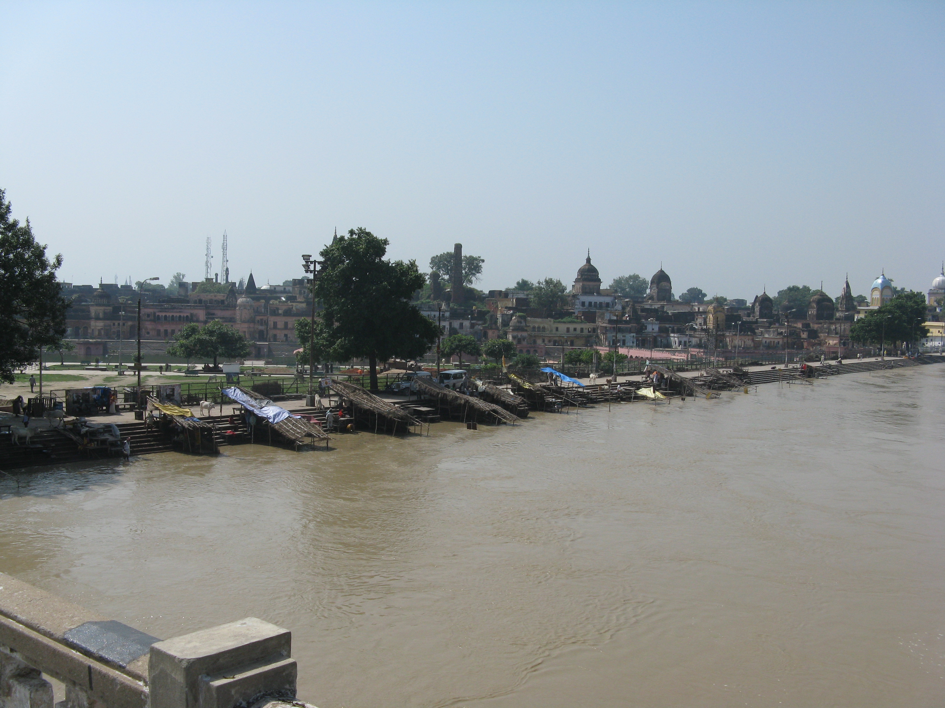 This river is of ancient significance, finding mentions in the Vedas and the Ramayana. On Ram Navami, the festival that celebrates the birthday of Lord Rama, thousands of people take a dip in the Sarayu River at Ayodhya.